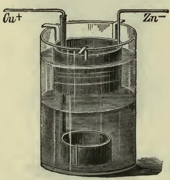 Thid Callaud cell is a simplification of the Meidinger cell, being without the reservoir for the copper sulphate crystals, and the small glass tumbler to hold the copper plate.